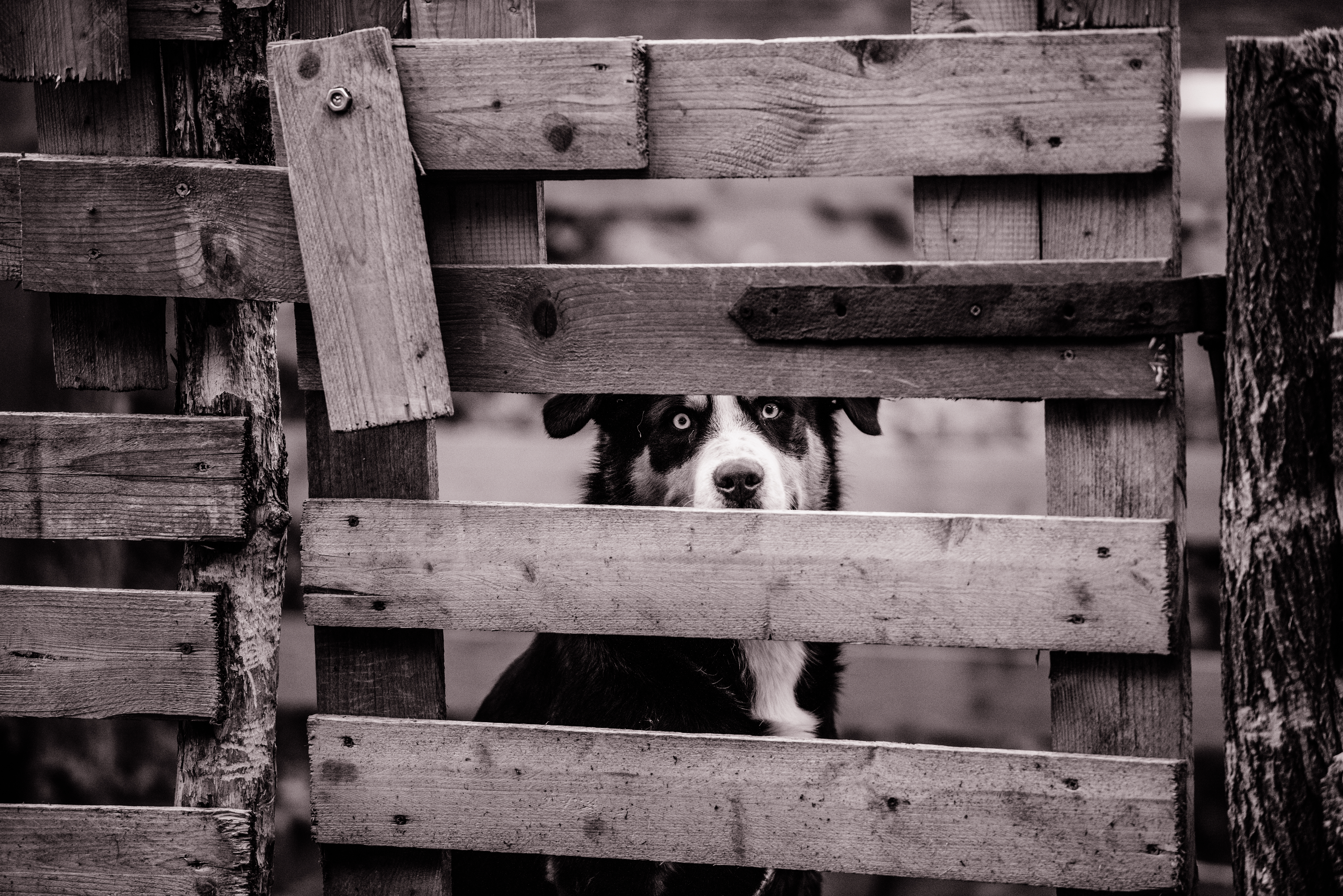 Lipoglav, Slovenia